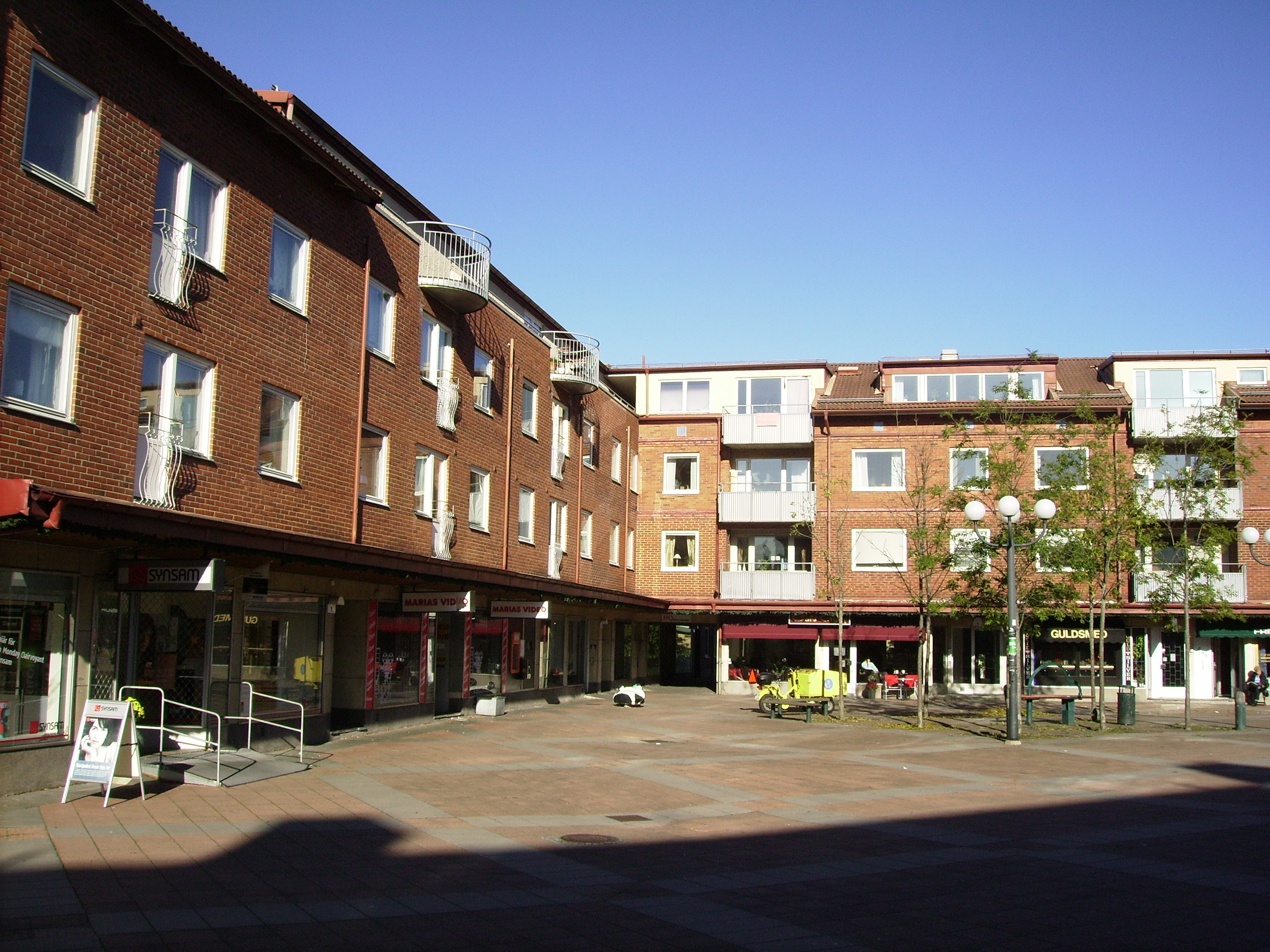 Picture of Munkebäckstorget in Göteborg